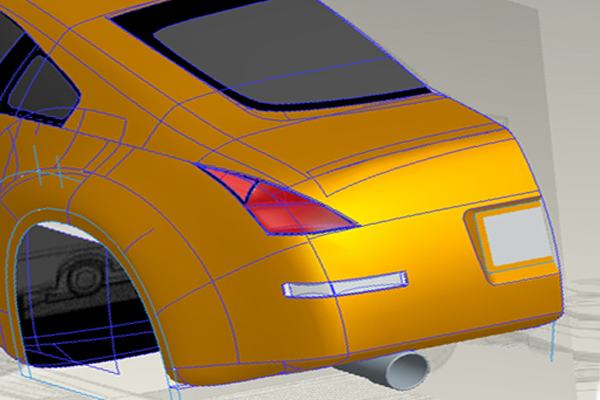 created using Pro/ENGINEER WF2.0 by Design engine Inc.